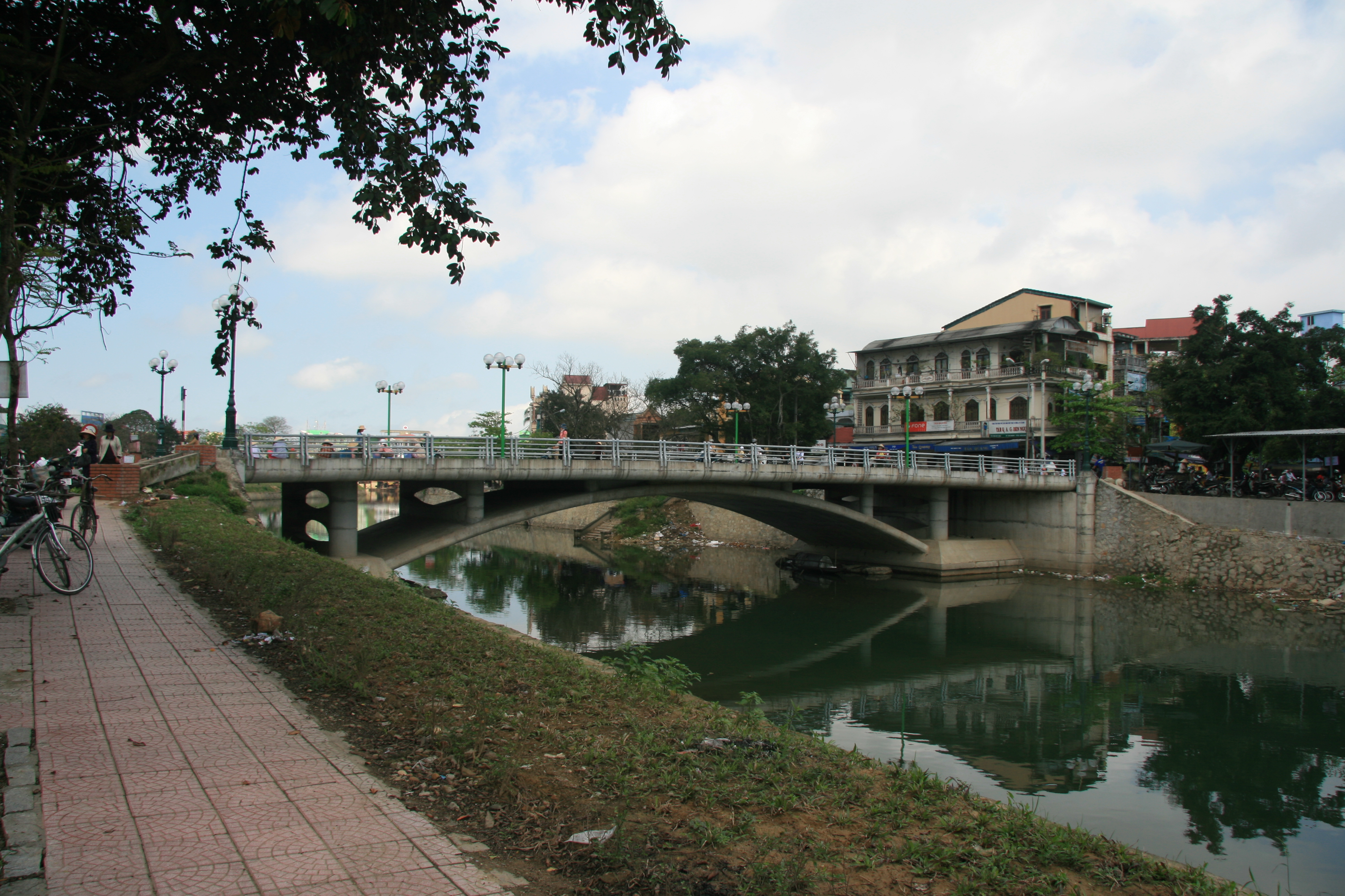 Ben Ngu Bridge in Hue, VietnamTiếng Việt: Chợ Bến Ngự, Thành Phố Huế